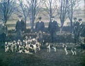 Dawson Jowett and Tom Clark, founders of the Airedale Beagles